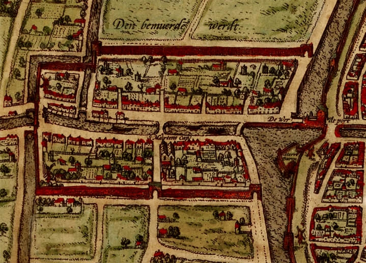 Bemuurd Weerd, from about 1300 a suburb outside of the city of Utrecht, Netherlands. Here shown in a part of a city map made in 1569. Just visible on the right side of the picture is the upper north part of the city. Note: east is the upper part in the picture.